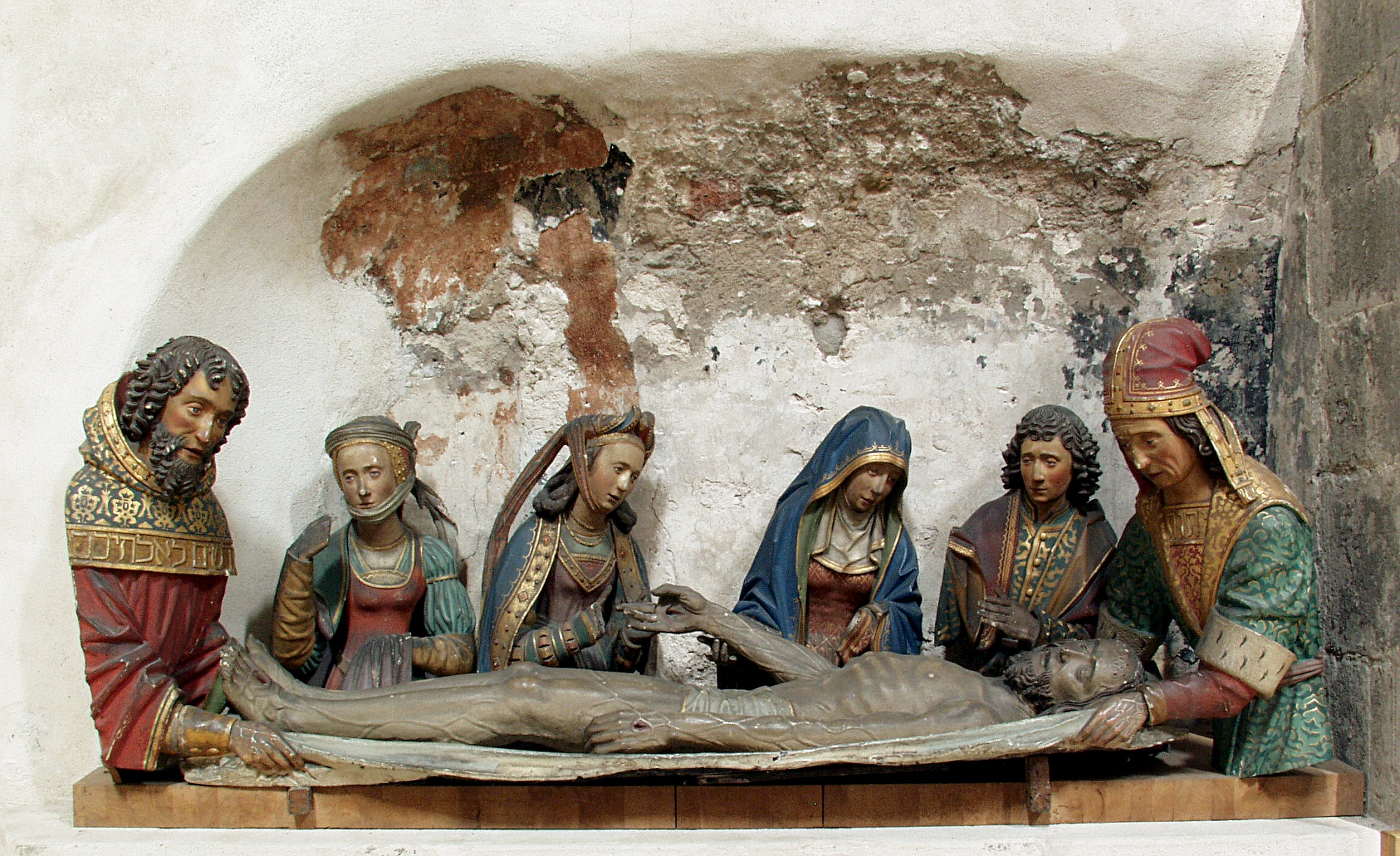 Group (from the left) of Nicodemus, an unidentified helper, Mary Magdalene, Mary, John the Apostle and Joseph of Arimathea placing the body of Jesus in a tomb, sculpture at church Groß St. Martin (Köln), 1509